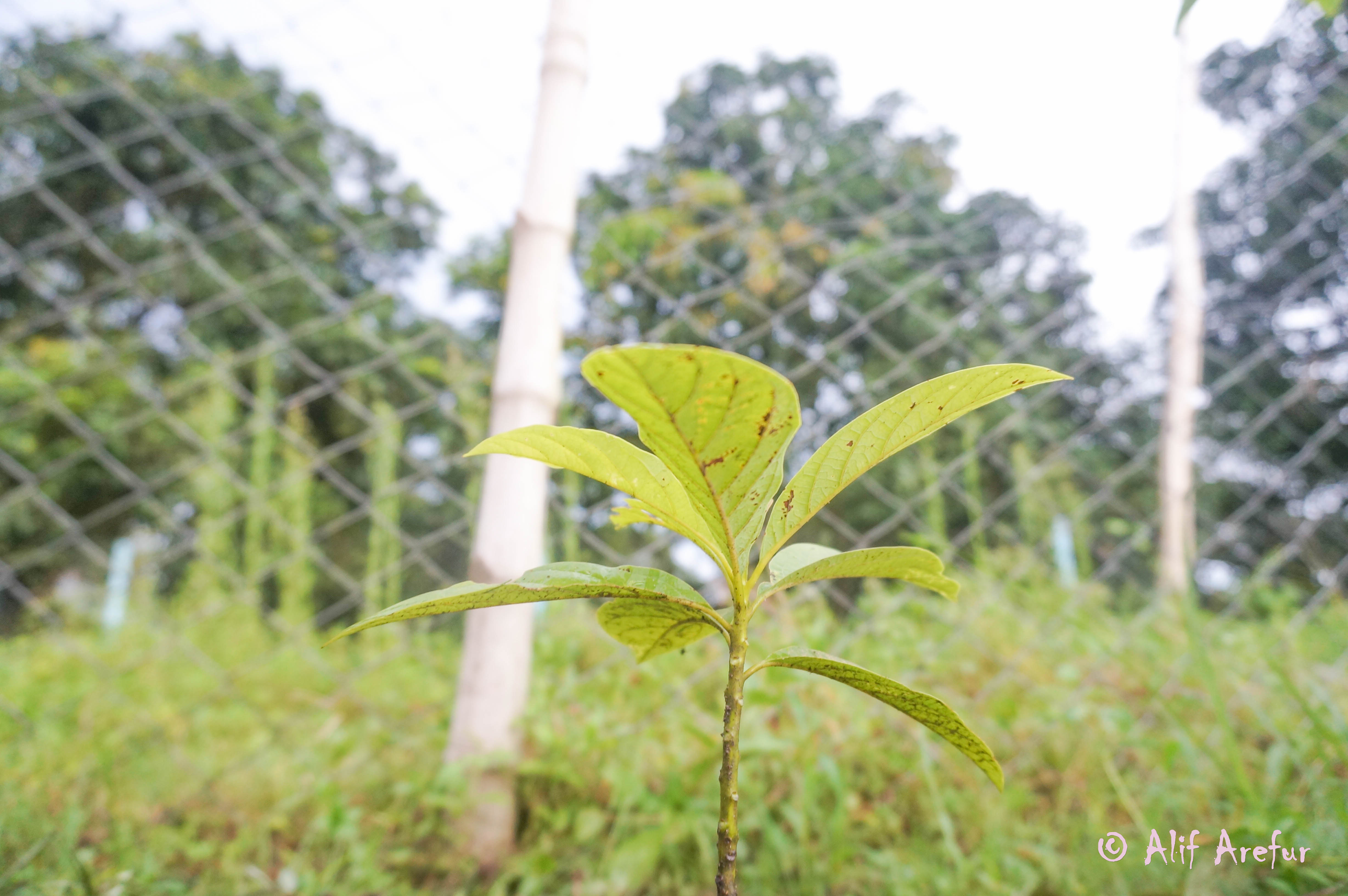 Avocado seedling on pot (shoot length 30 cm ) at Malik's Farm